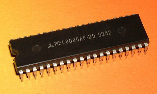 Mitsubishi M5L8085AP 20